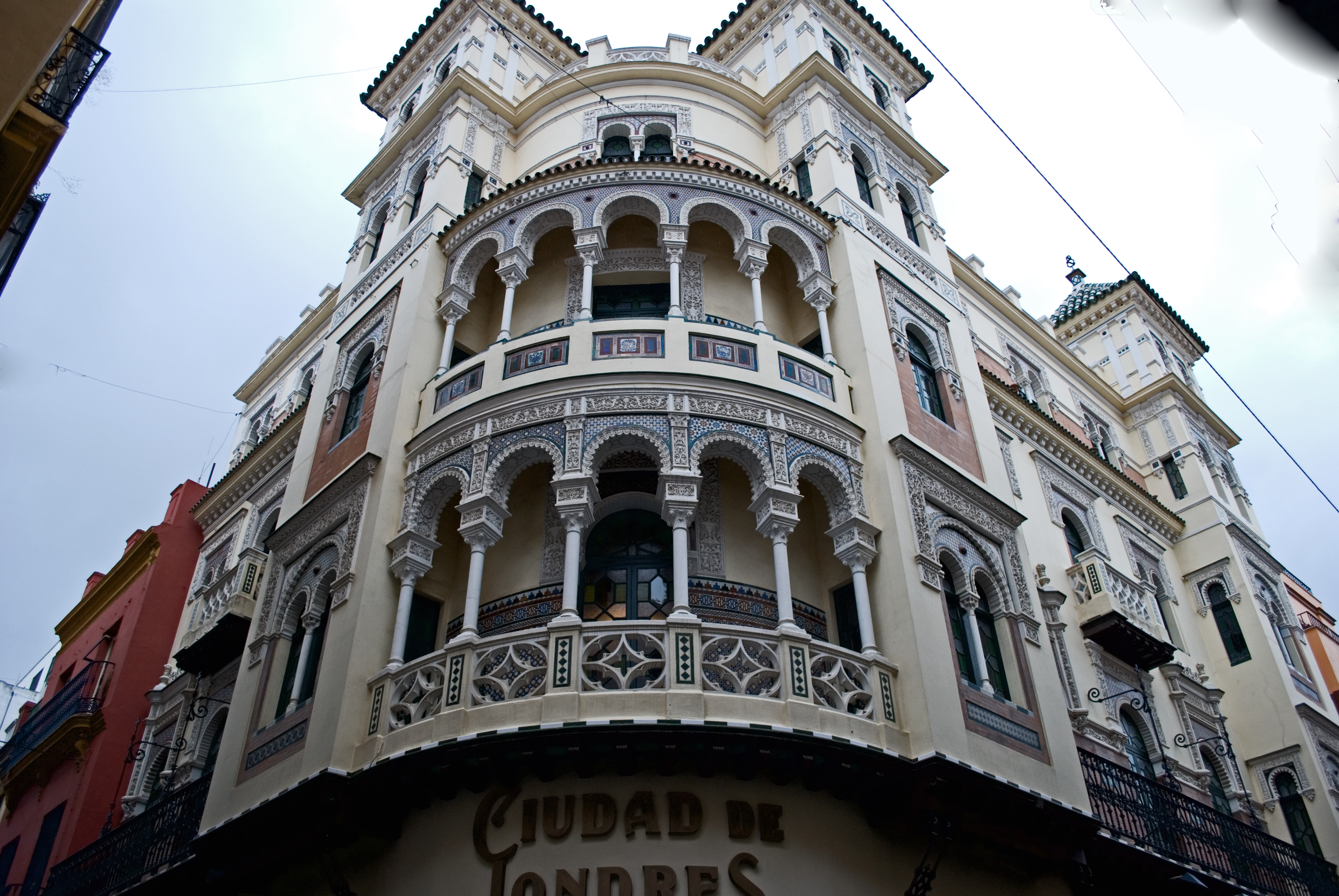 Building in Cuna street, Seville, arq. José Espiau y Muñoz